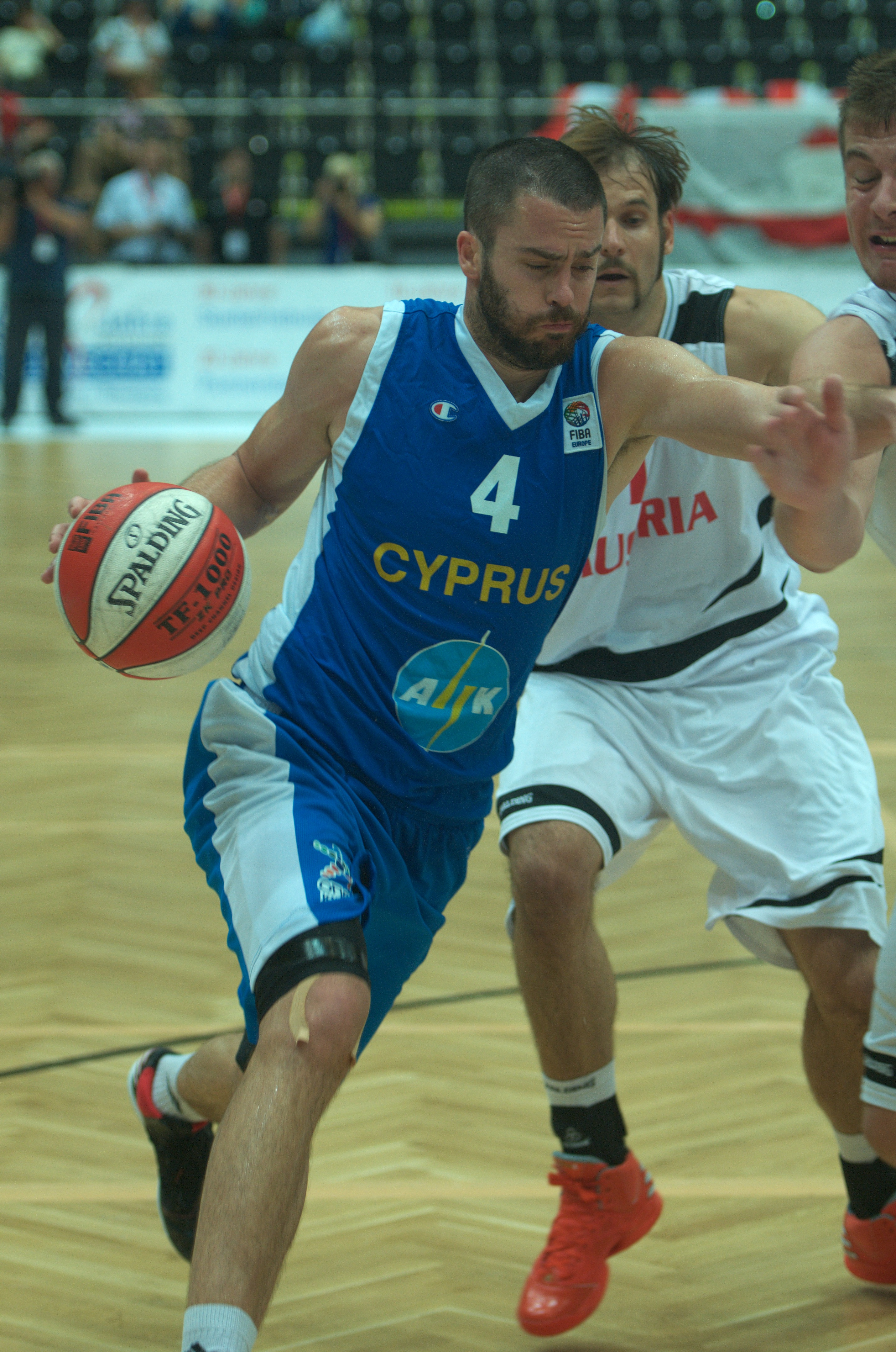 Alex Liatsos, Christoph Nagler und Rasid Mahalbasic